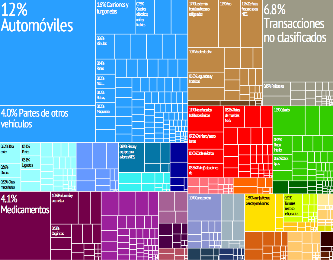 Representación gráfica de los productos de exportación del país en 28 categorías codificadas por color. Cada recuadro de color representa un producto y su tamaño es proporcional a la participación que ese producto representa dentro del total de las exportaciones del país.